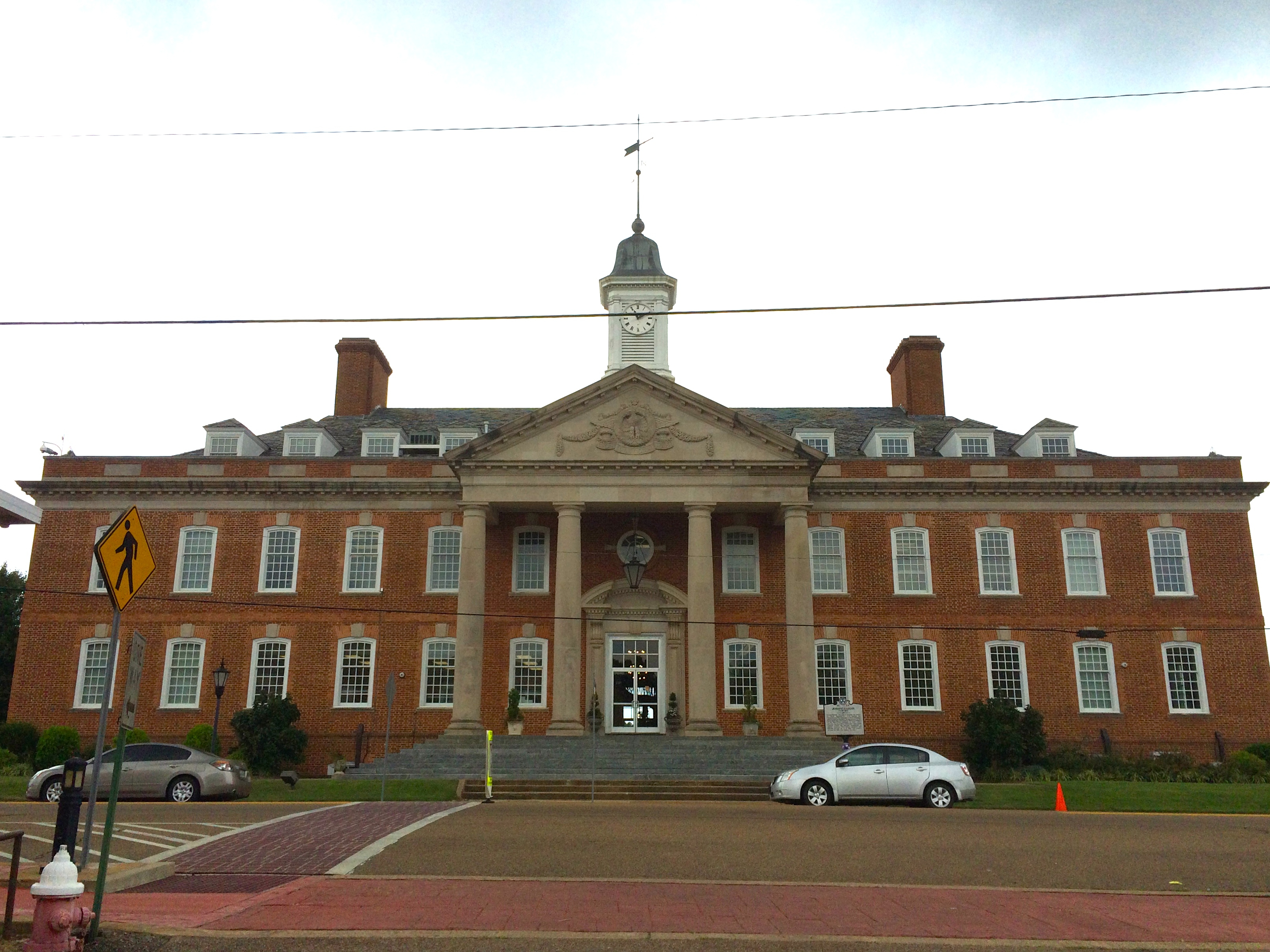 Photo of the Hardin County, Tennessee courthouse in Savannah, Tennessee.